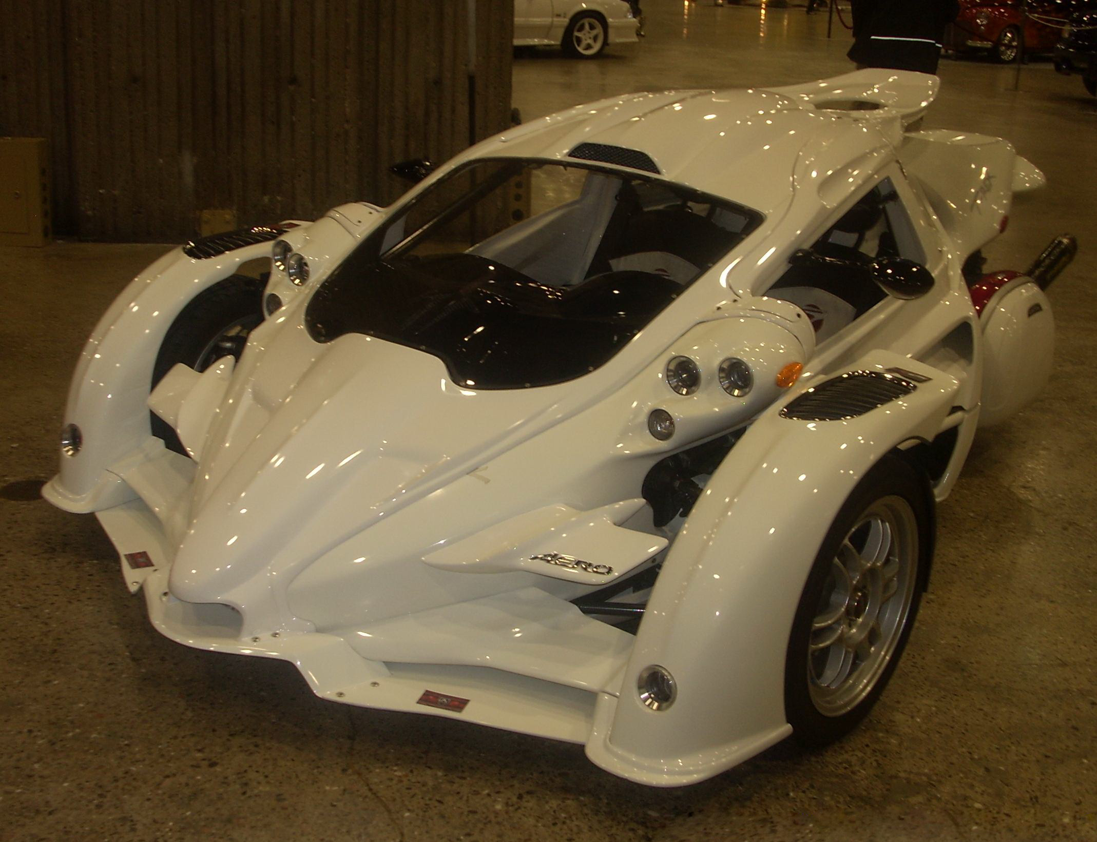 2007 Campagna T-REX modified by Aero 3S photographed at Auto classique Montréal 2008.